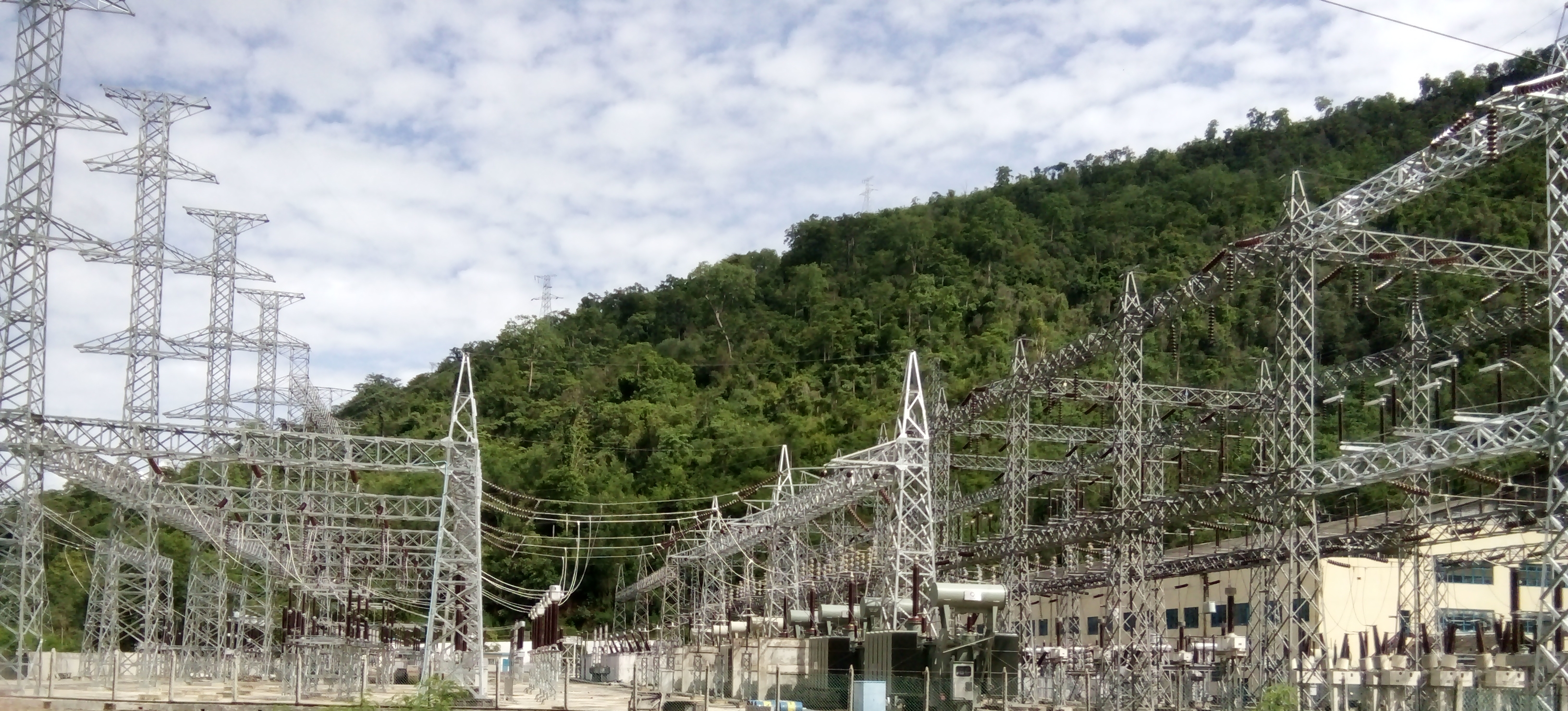 The Lawpita Power Station No.2